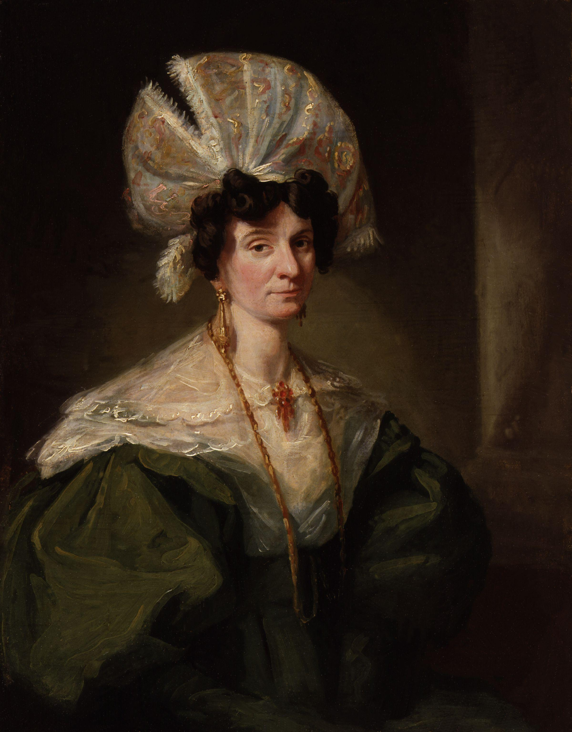 Jane Hood (née Reynolds), by unknown artist. All images in this batch have an unknown author, but there is strong evidence it was first published before 1923 (based mainly on the NPG's estimated date of the work).